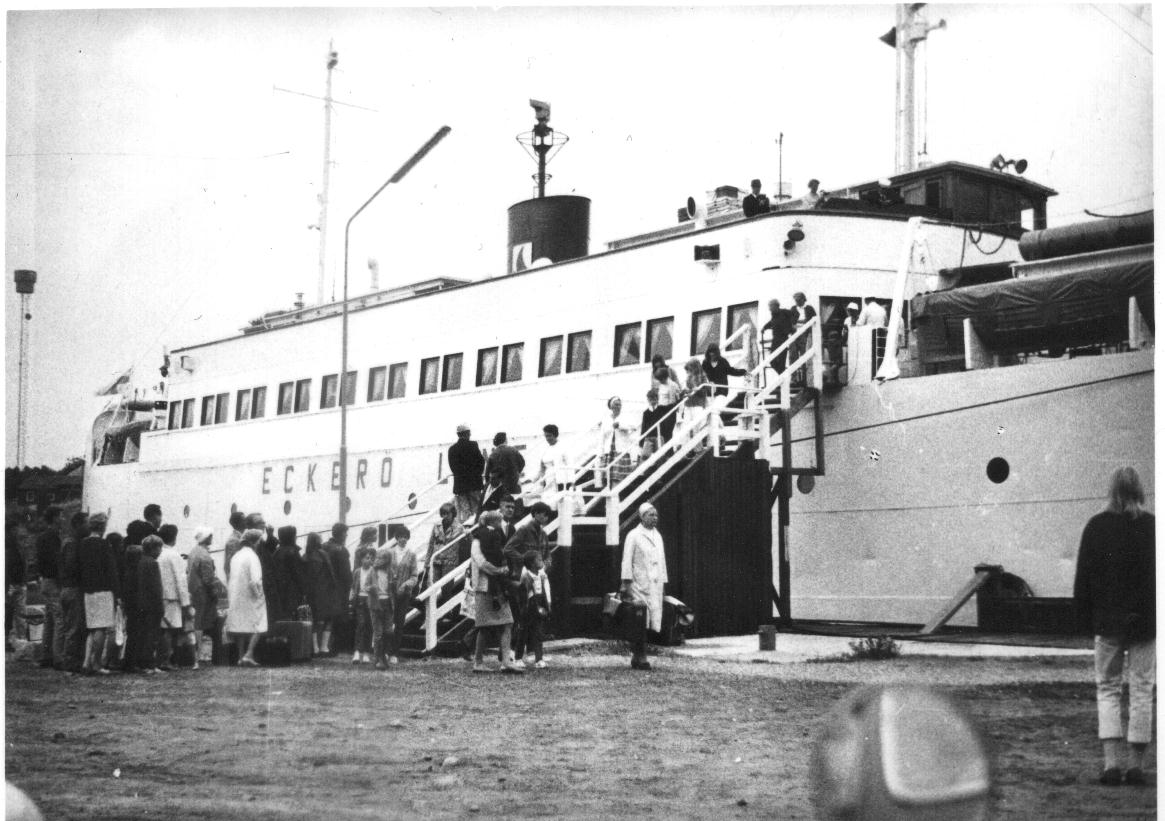 Car ferry MS Alandia in Grisslehamn July 1967 Ship Type: Ferry (RORO) Builder: Moss Vaerft, Moss Yard No: 79 Launch Date: 7.6.39 Date of completion: 13.7.39 Length overall: LPP: 48.9 Beam: 10.1 Tons: 484 Speed: 9 kn History Built 1939 at Moss værft in Norway as MS Bastø II for A/S Alpha, Moss, Norway 1944 Commanded by the Germans for troup transportations 1961 Sold to Eckerö Linjen in Åland, renamed: MS Alandia 1961 Capsized without any casualities. Was salvaged and put into service again, after that nicknamed "Åland runt". ("Alandia around") 1976 Sold for scrap to Ystad.